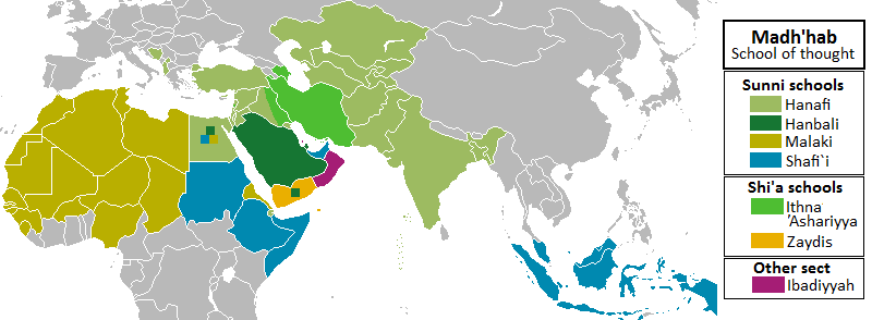 The map showing the schools of thought of Islam